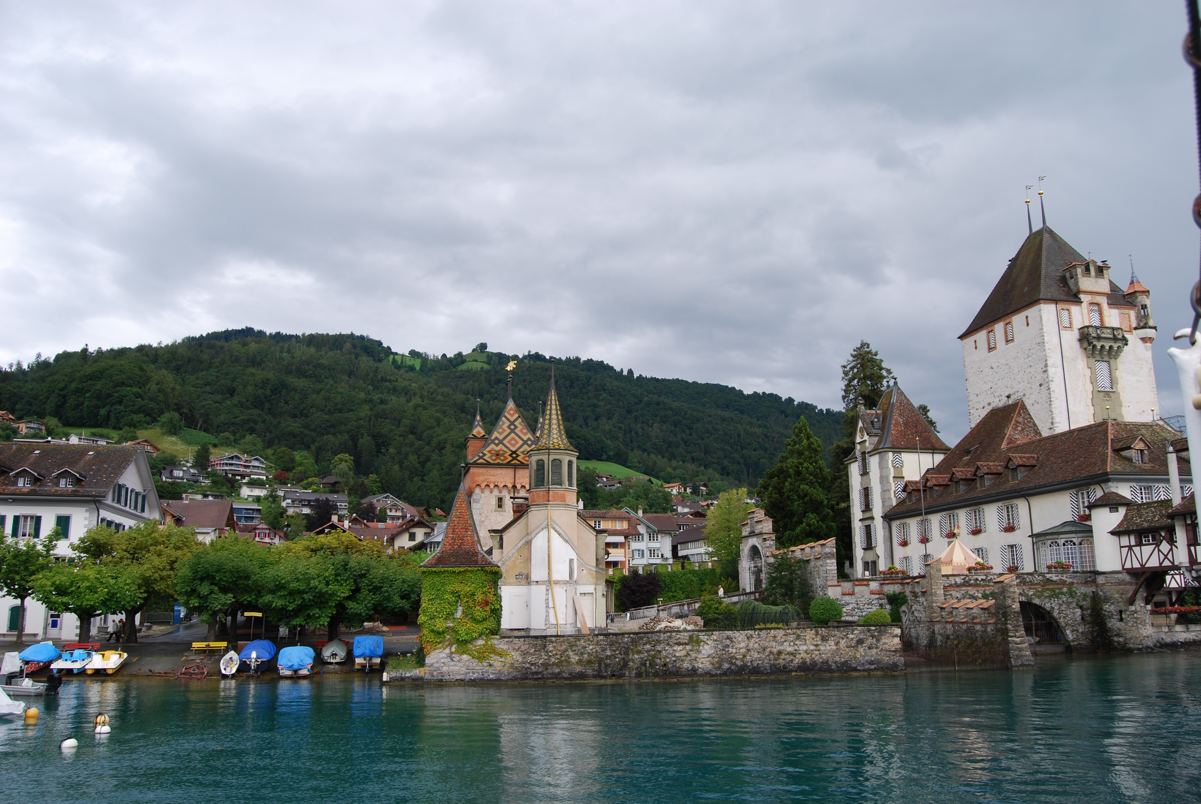 Castle Oberhofen at Oberhofen am Thunersee, canton of Bern, Switzerland